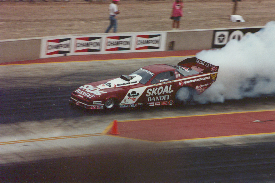 Don Prudhomme, Denver 1990. He was ranked #3 on NHRA's Top 50 drivers in 2001.Don Prudhomme